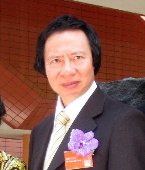 image cropped to show only Thos Kwok